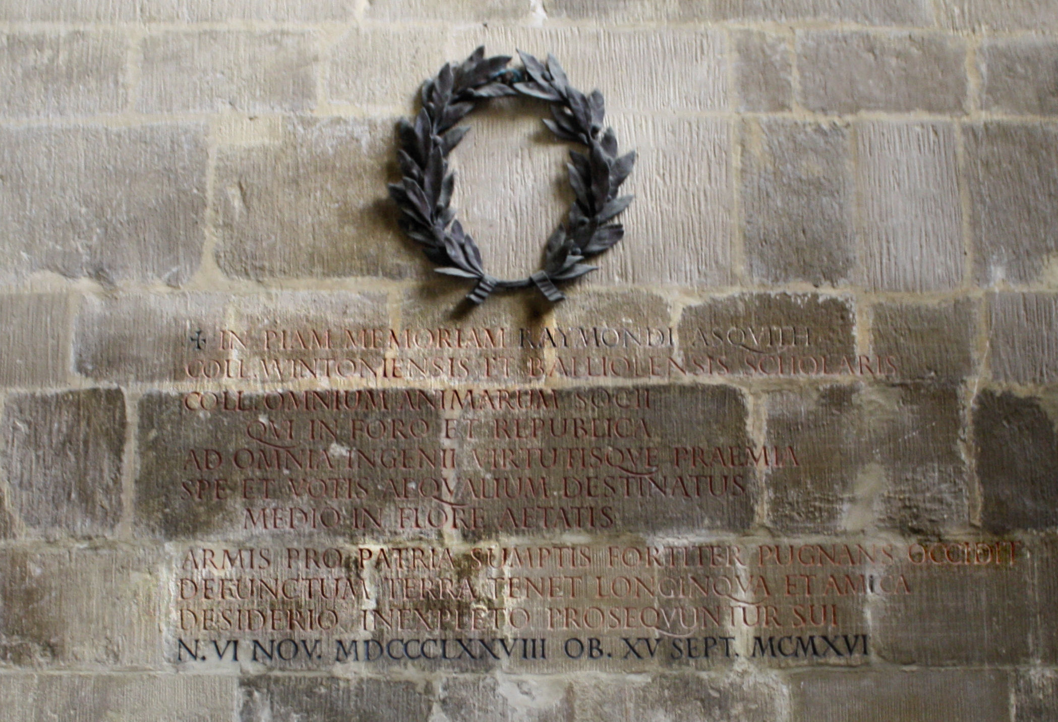 The memorial is in the Parish Church of Mells, Somerset. Raymond Asquith was the eldest son of the Liberal Prime Minister of Great Britain from 1908-1916. He was shot on 15 September 1916, during the Battle of Flers-Courcelette. He died while being carried back to British lines.